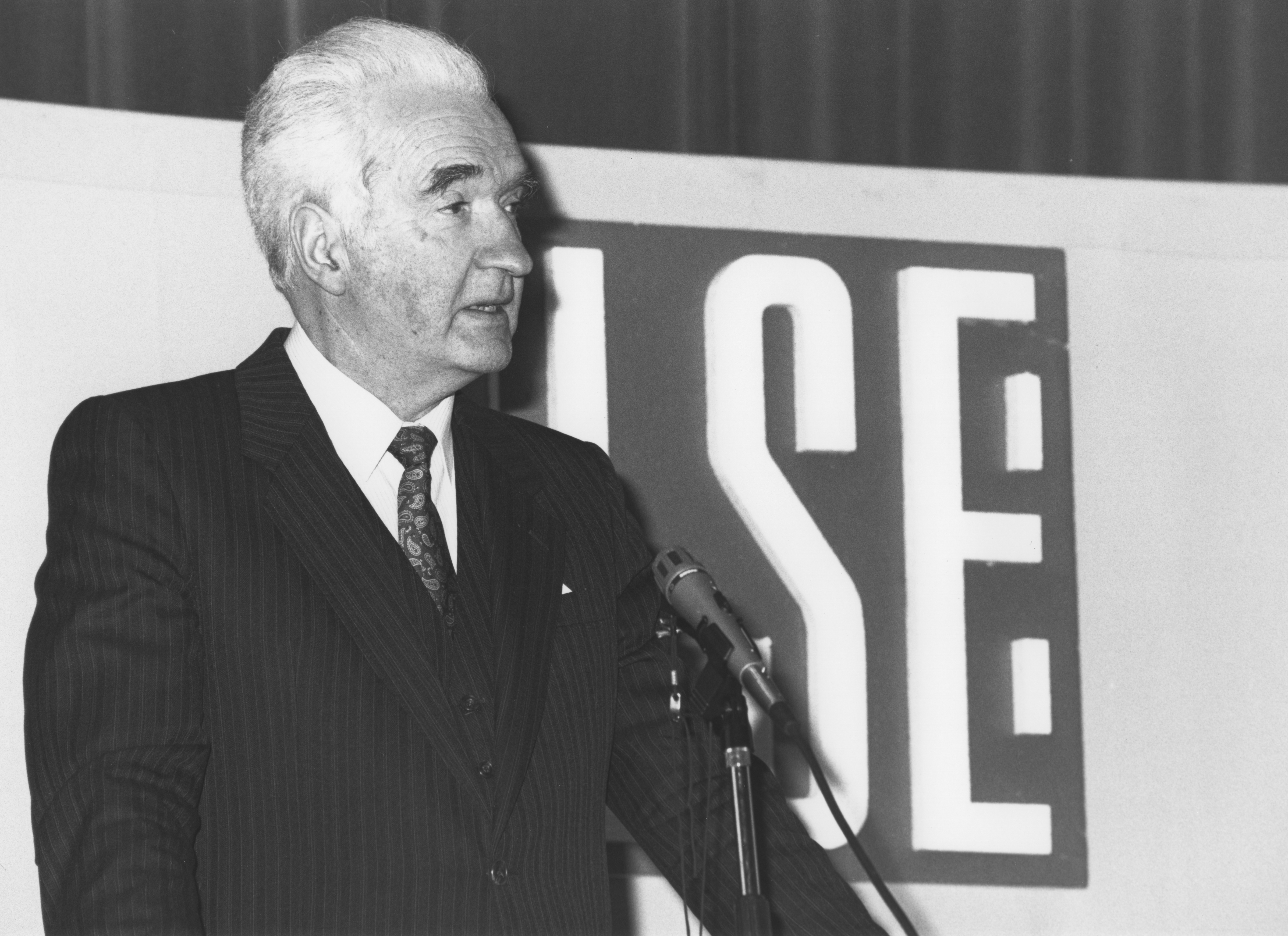 As chairman for the public lecture by Basil Markesinis 30th November 1989 IMAGELIBRARY/295 Persistent URL